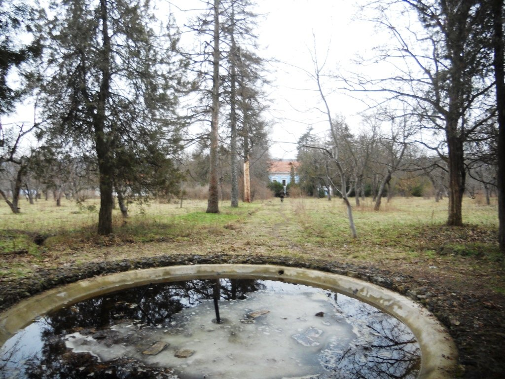 Image of the Balioz mansion in Ivancea, Orhei District, Republic of Moldova